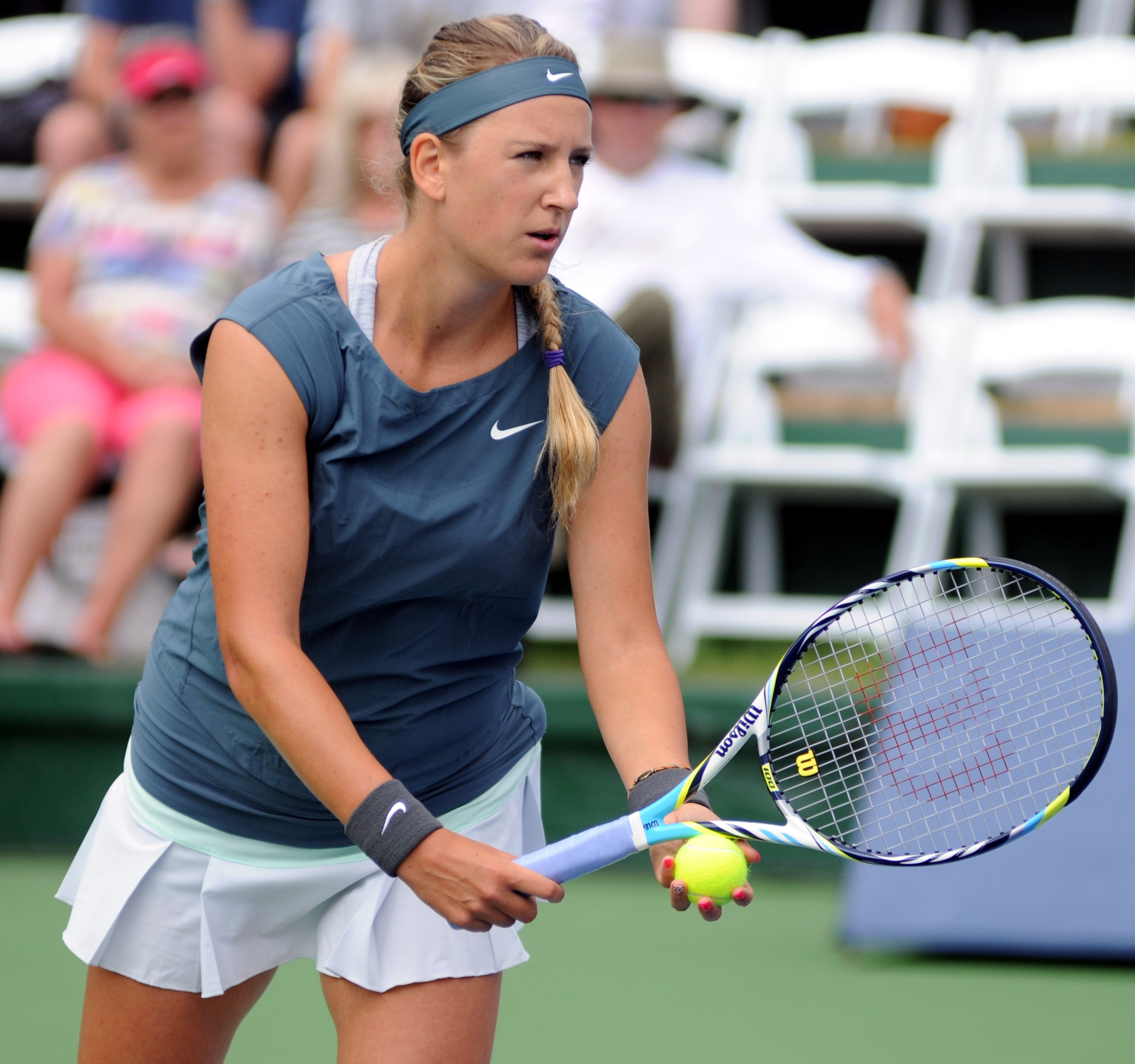 Victoria Azarenka - 2nd Round 2013 Southern California Open